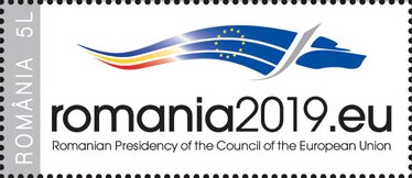 Romania's Presidency of the European Union - 2019